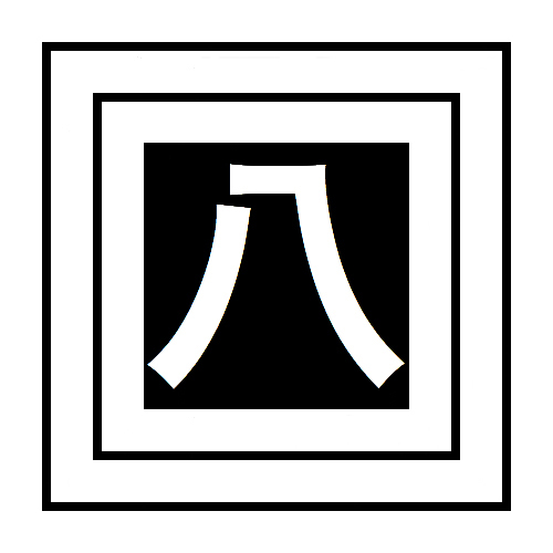 Japanese family crest "Mimasu no naka ni hachi", three volume measuring boxes (masu) stacked, carrying a kanji "八" (hachi, eight) in the center